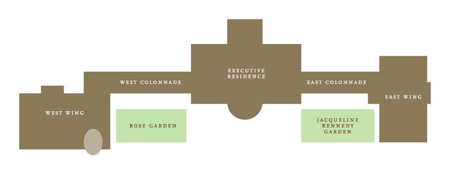 White House Complex showing the West Wing, West Colonnade, Executive Residence, East Colonnade, East Wing, Rose Garden, and Jacqueline Kennedy Garden. The Oval Office is the lighter-colored oval shape in the West Wing. Note: Image is not to scale.